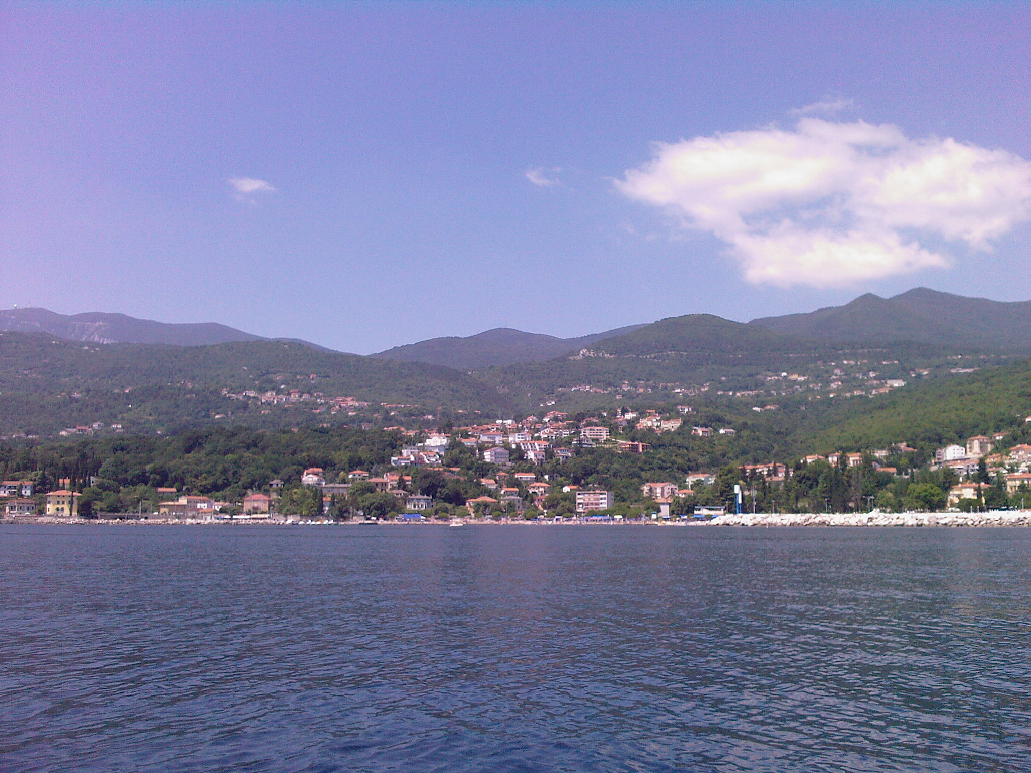 A picture taken from the boat